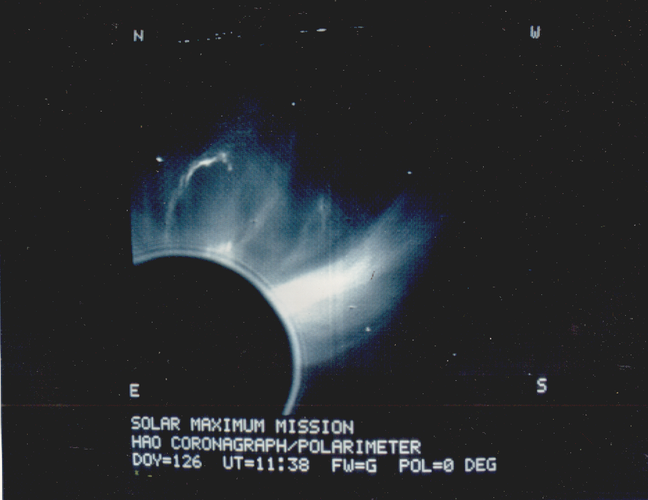 C/P image of the coronal transient of 5 May 1980, taken at 11:38 UT